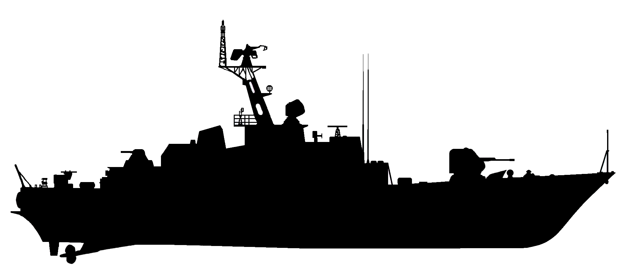 Polish Navy ship project 1241